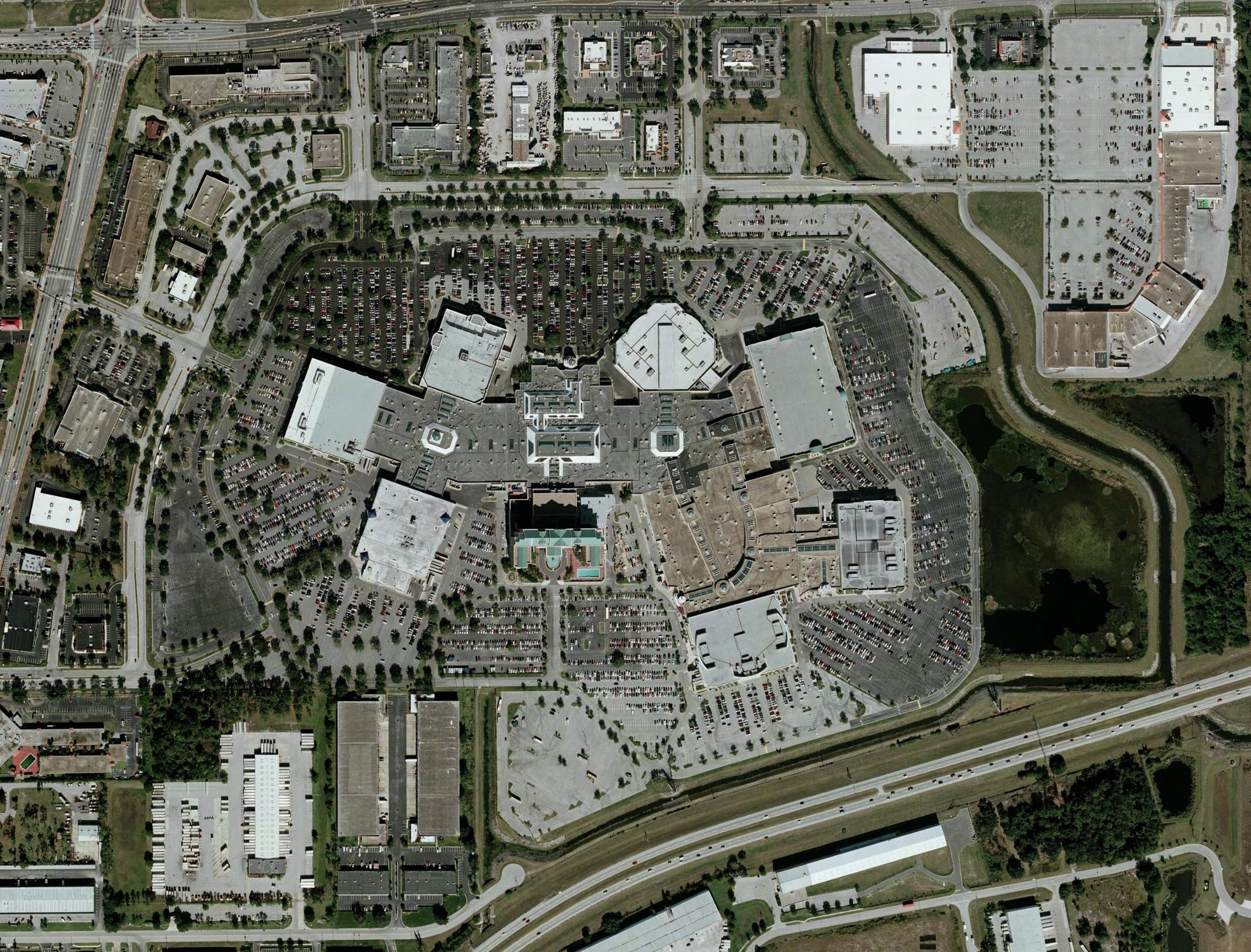 The Florida mall satellite view, Orlando, Fl. (NASA)